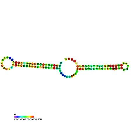 Secondary structure image for 23S_methyl_RNA_motif non coding RNA (RF01065). Nucleotide colouring indicates sequence conservation between the members of this family.